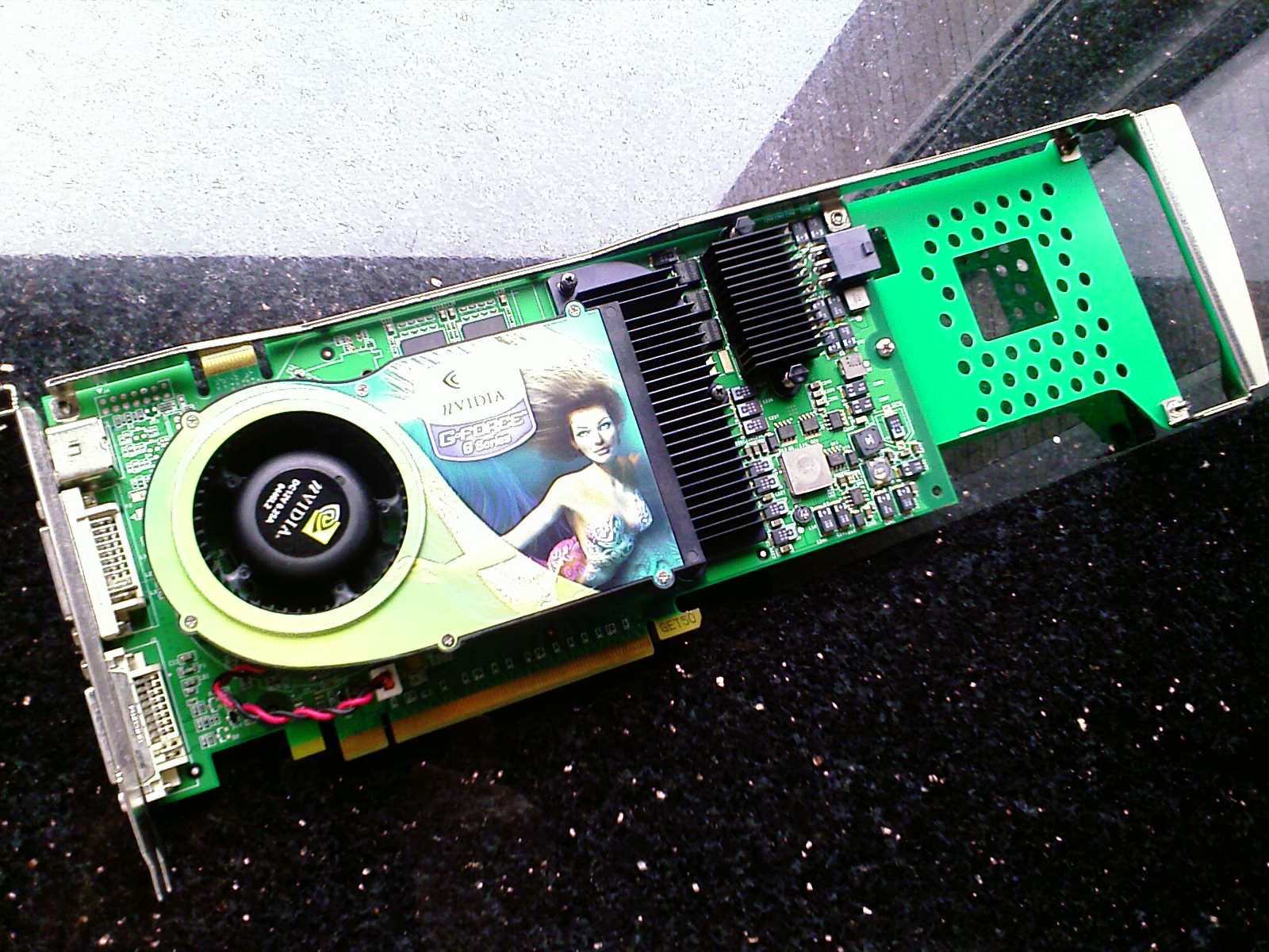 NVIDIA GeForce 6800 Ultra Graphic card